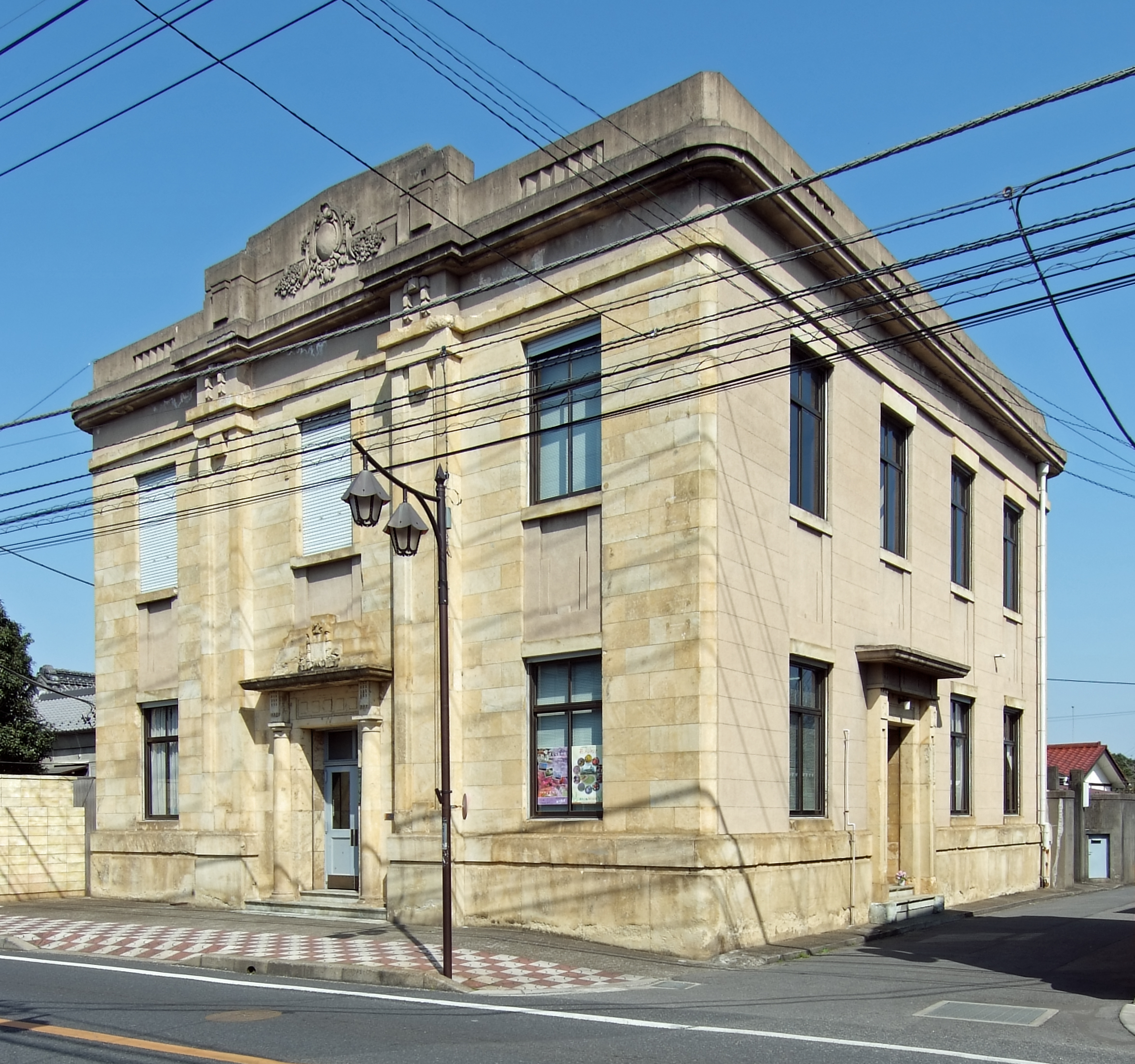 Bank of Noda-Shouyuu in Noda Chiba Japan.